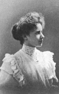 A young white woman, wearing a white blouse with a high lace neck and pinafore-style ruffles. She has her hair in a large bun at the back of her head.